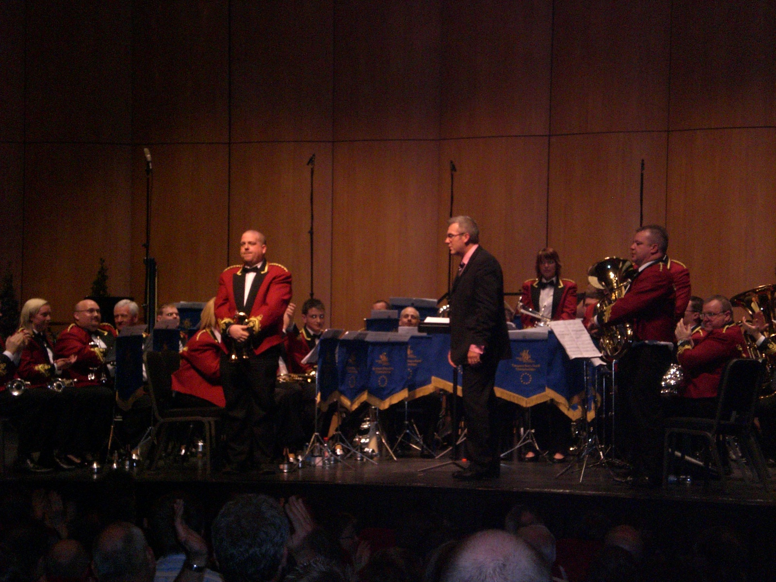 Tredegar Band EBBC 2009